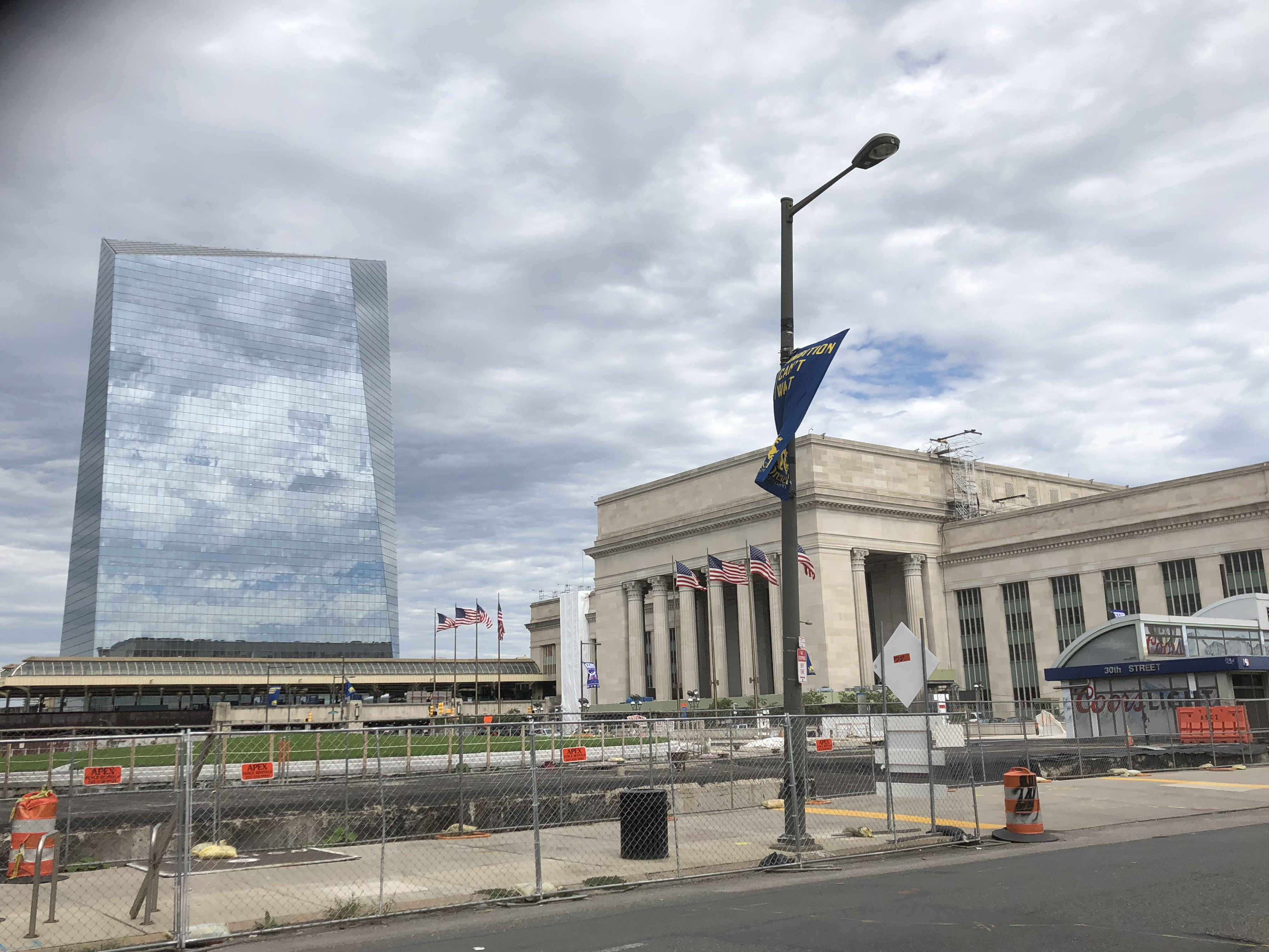 30th Street Station and Cira Tower